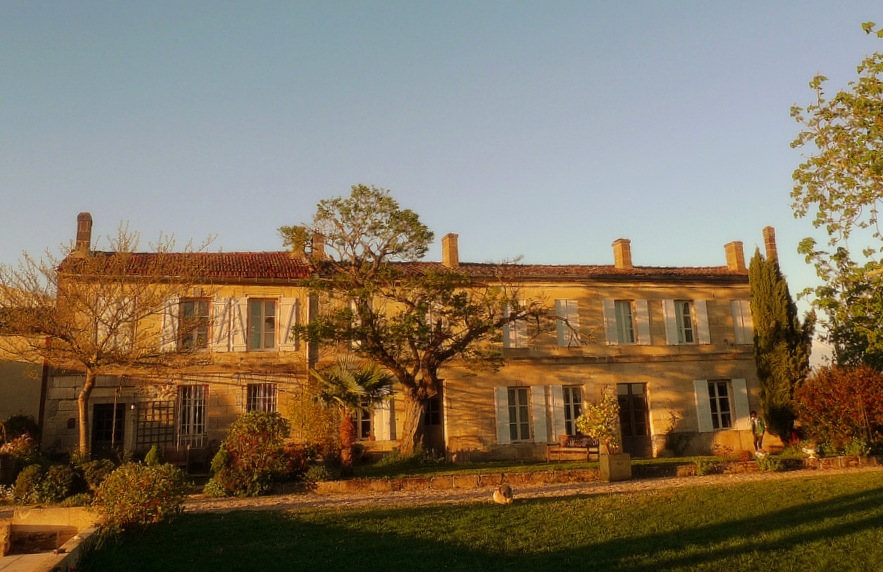 Pic of the propriety